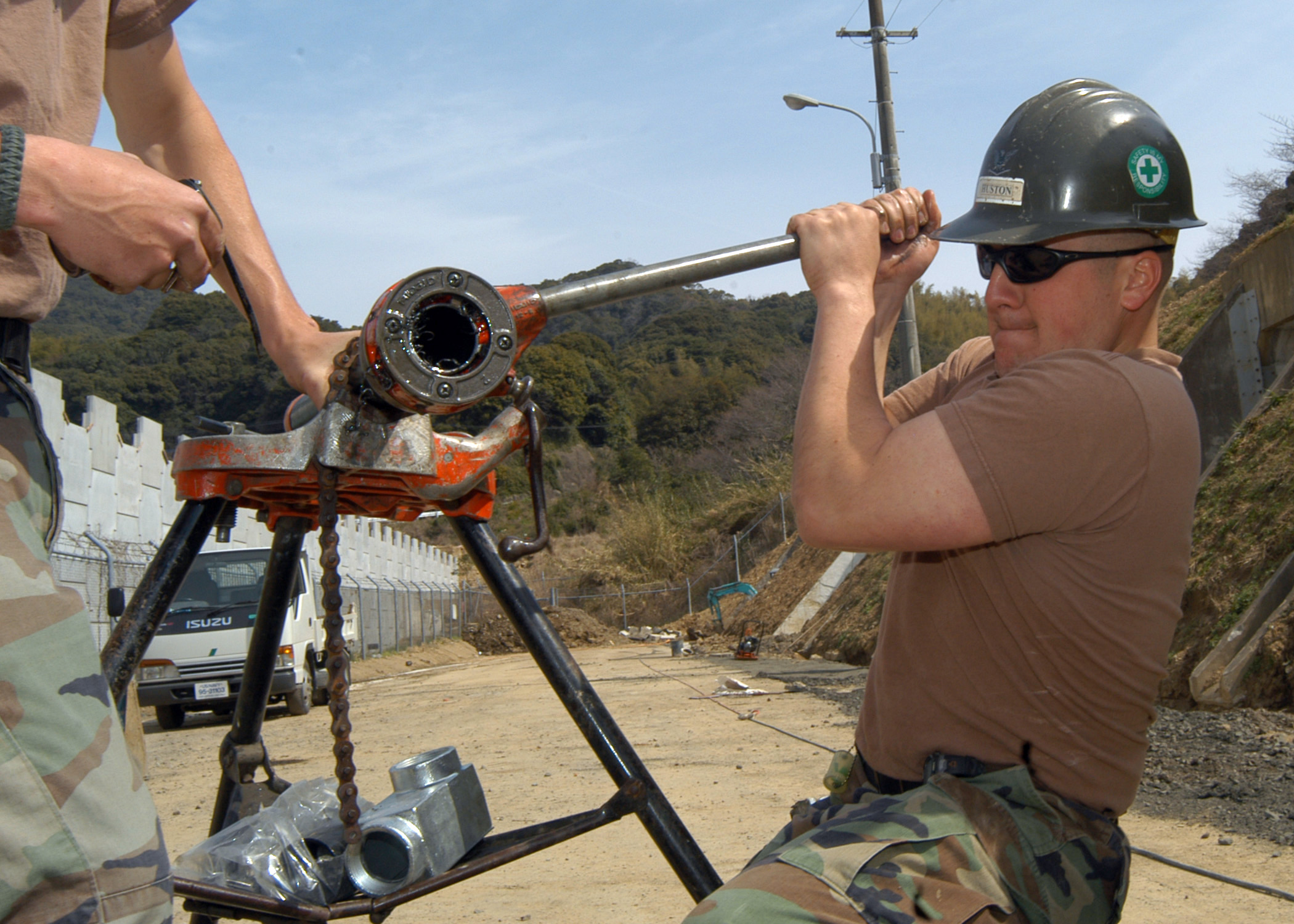 U.S. Fleet Activities Sasebo, Japan (Mar. 21, 2005) - Construction Electrician 3rd Class Matthew Huston, assigned to Naval Mobile Construction Battalion Four Zero (NMCB-40), Detachment Sasebo, threads a pipe at a construction site during a renovation of the Akasaki storage caves in the Akasaki Fuel Depot Area. NMCB-40 is on a regularly scheduled deployment from their homeport in Port Hueneme, Calif. while on deployed, they will conduct various upgrades to existing facilities and facility installation projects aboard U.S. Fleet Activities, Sasebo. U.S. Navy photo by Photographer’s Mate 3rd Class Yesenia Rosas (RELEASED)